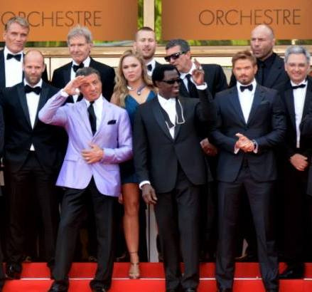 The cast of "The Expendables 3" at the Cannes Film Festival